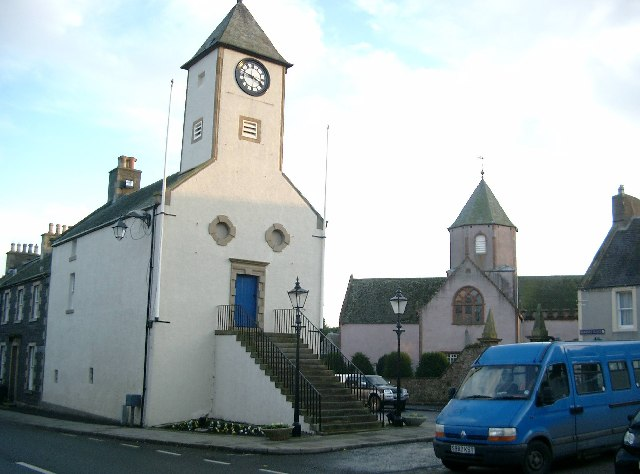 The tolbooth at Lauder, Scottish Borders